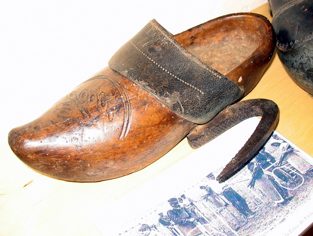 Clogs with an iron part to enter poles in the ground